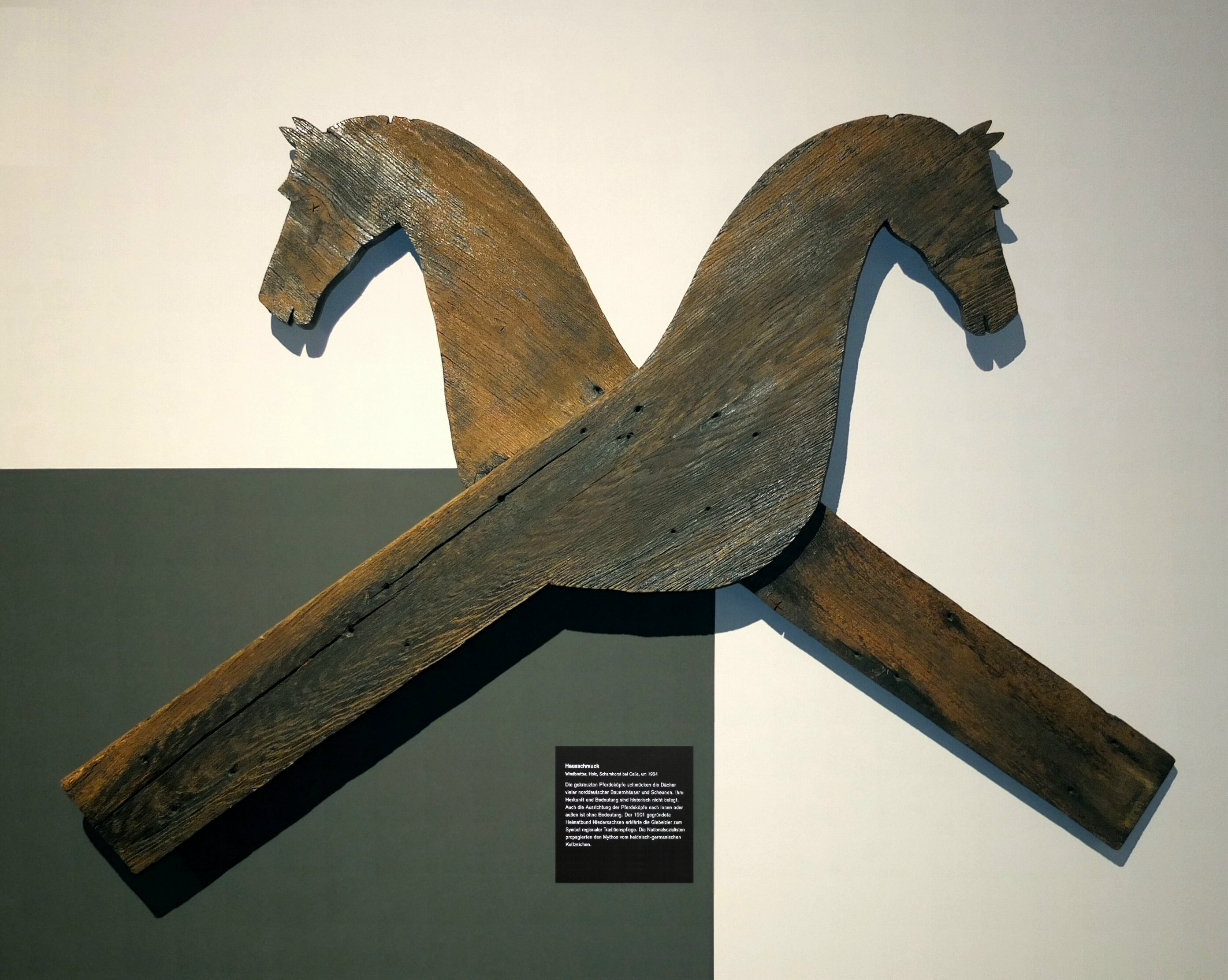 Gable with crossed horse heads in the Historisches Museum Hanover